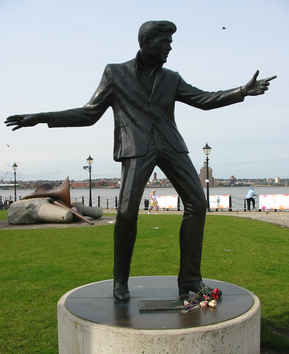 Nrf: Liverpool